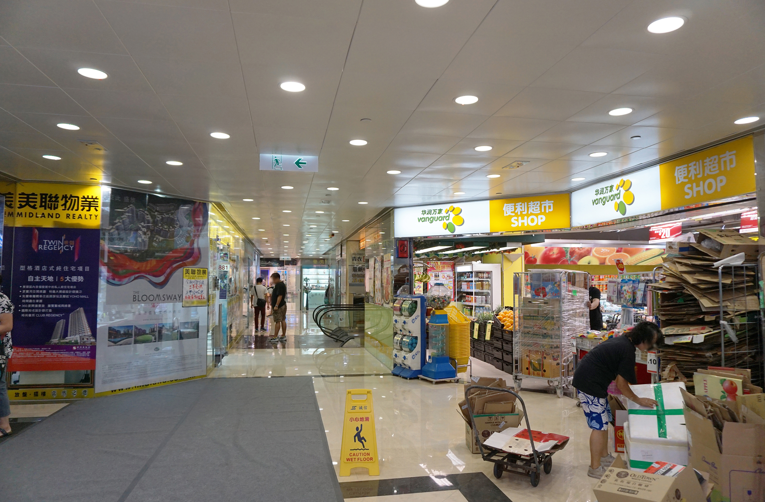 Villa Esplanada in Tsing Yi, Hong Kong.